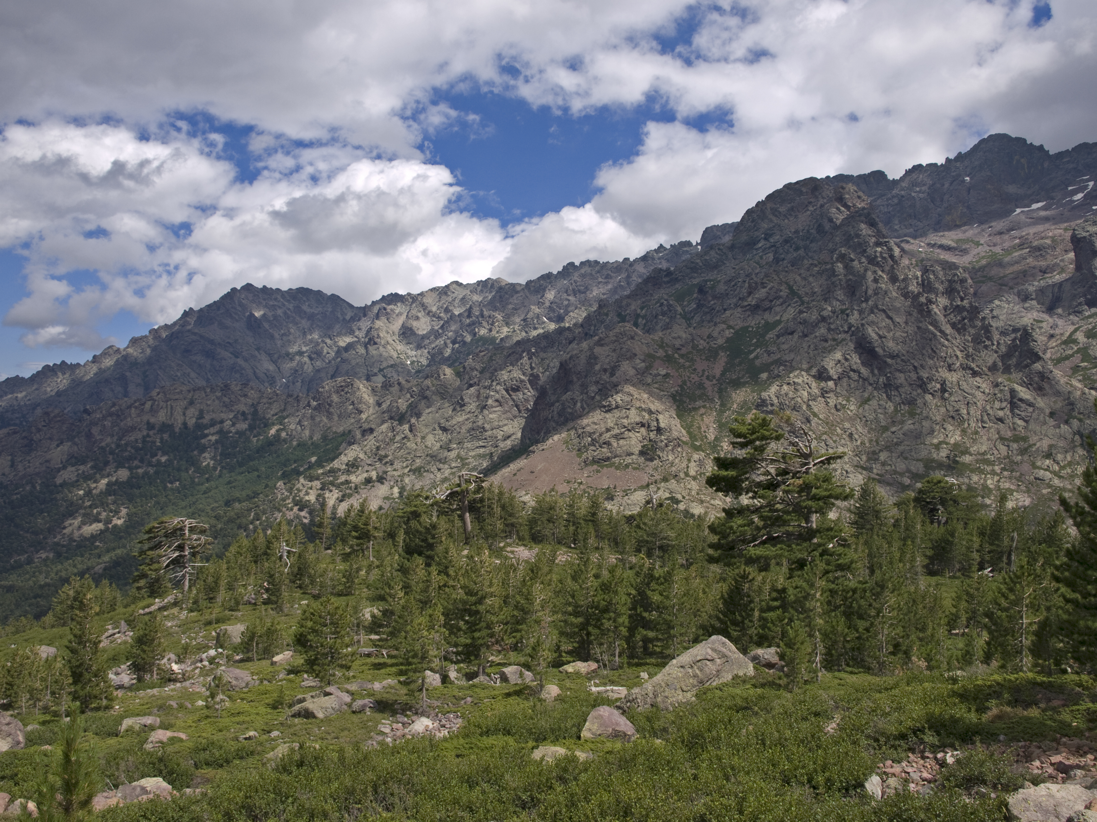 Mountains above Haut-Asco